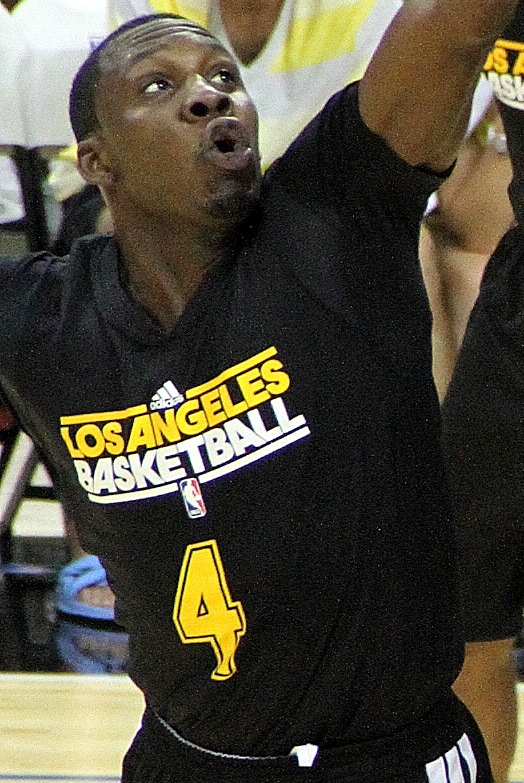 Lester Hudson playing for the Los Angeles Lakers' 2013 Summer League team